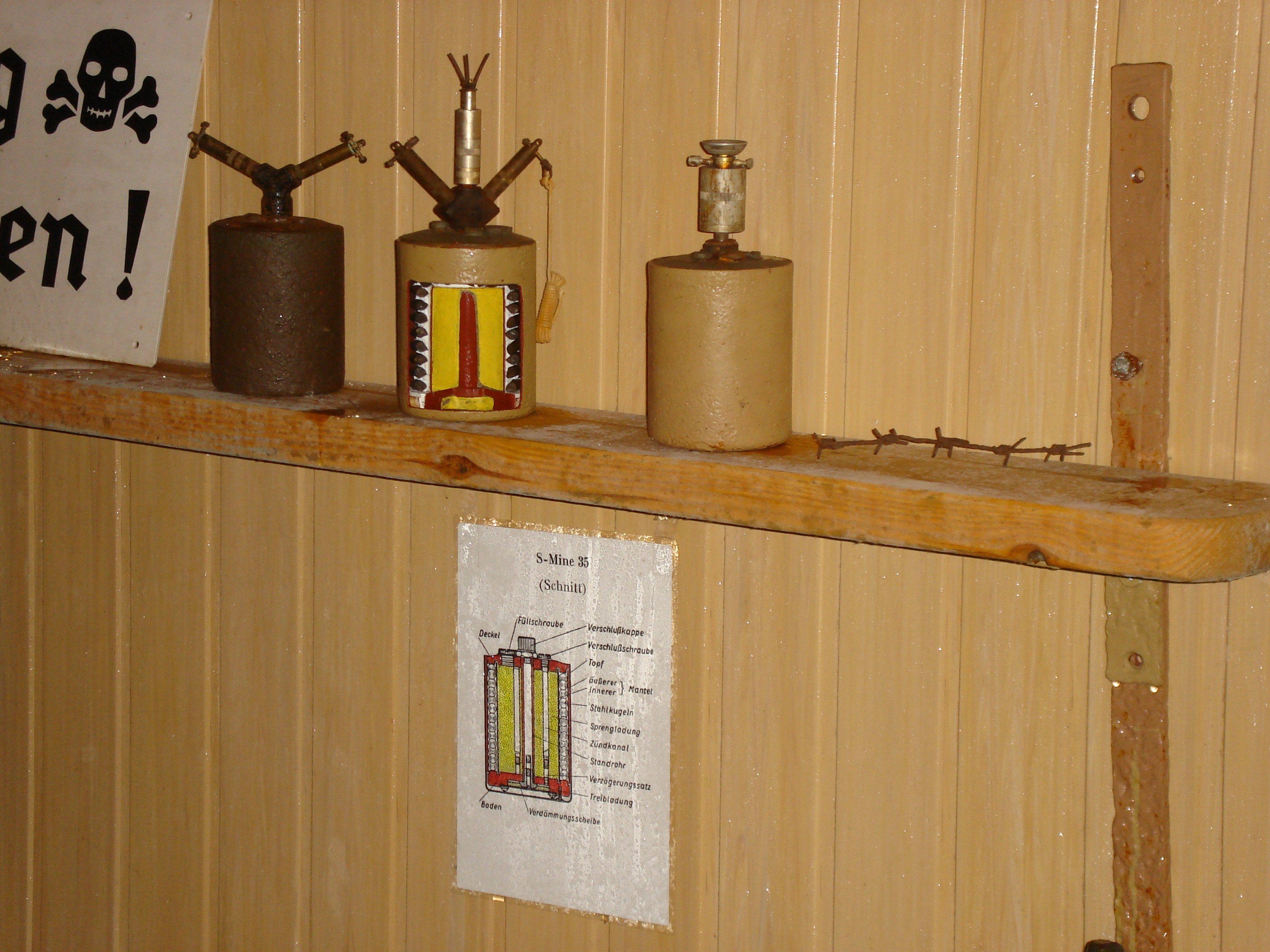 World War II bunker-museum, Bakałarzewo, Poland